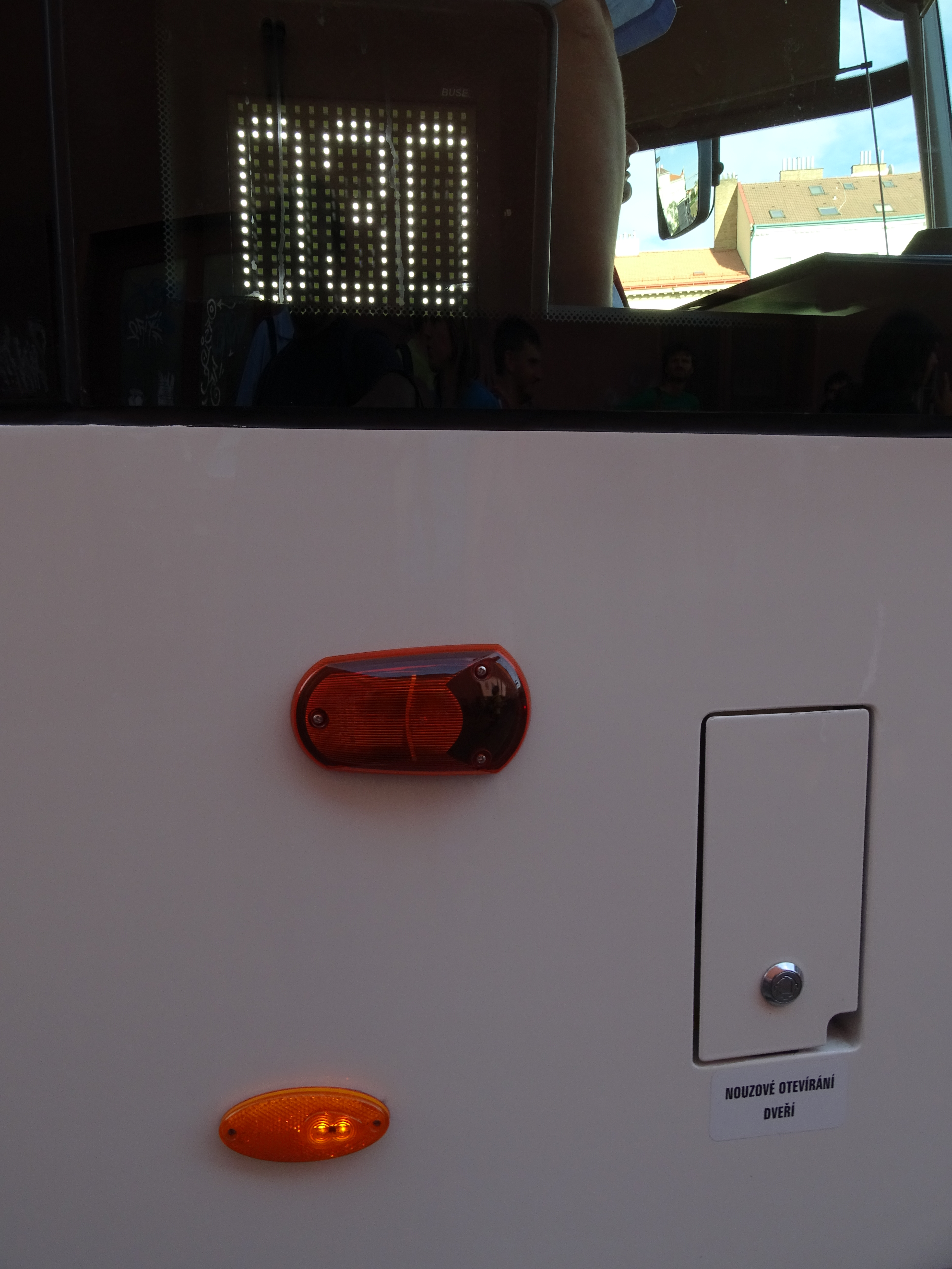 Prague-Smíchov, Czech Republic. Tram loop Smíchovské nádraží, tram EVO1.